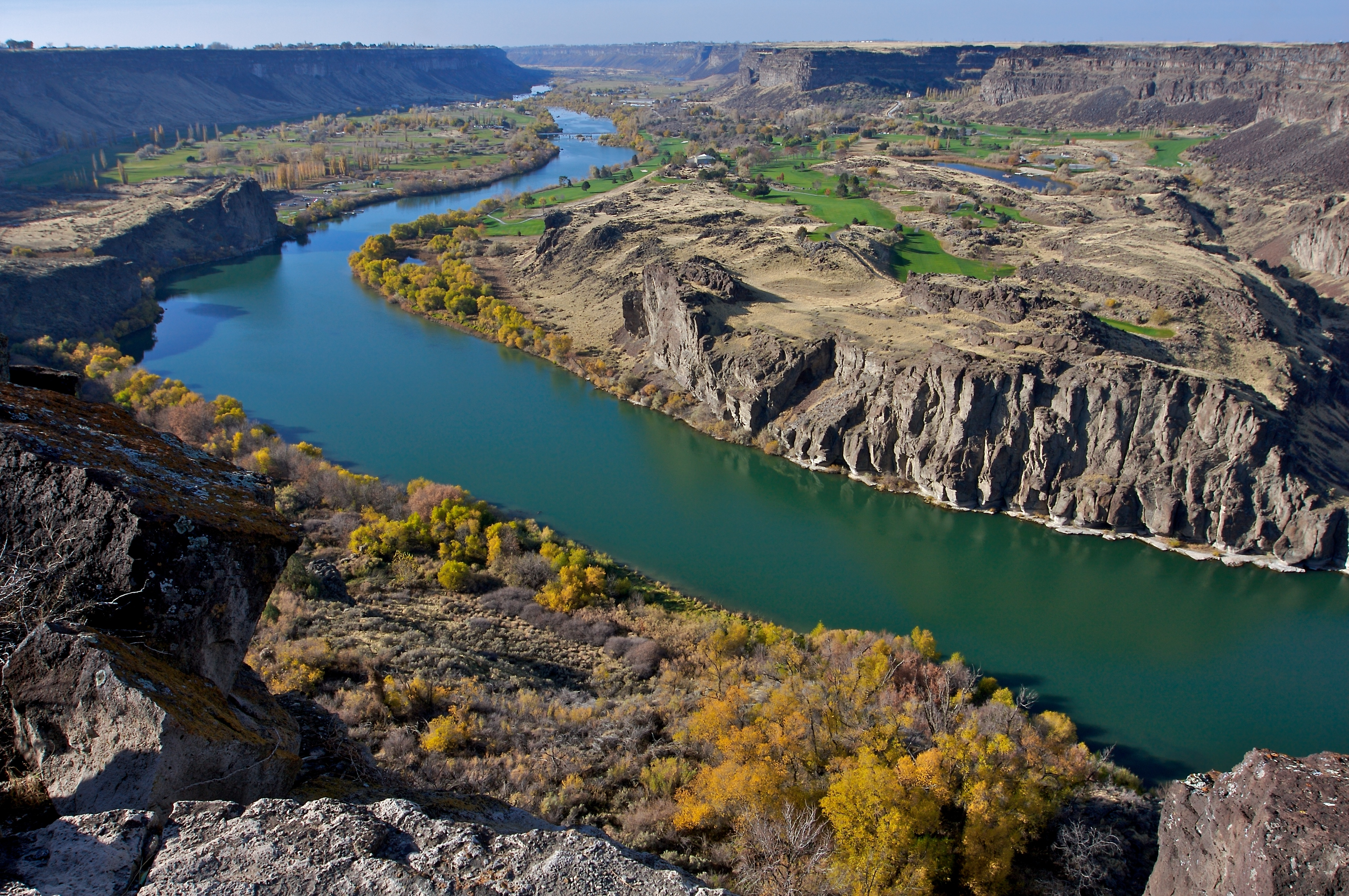 As seen from Perrine Memorial Bridge, Twin Falls, ID.